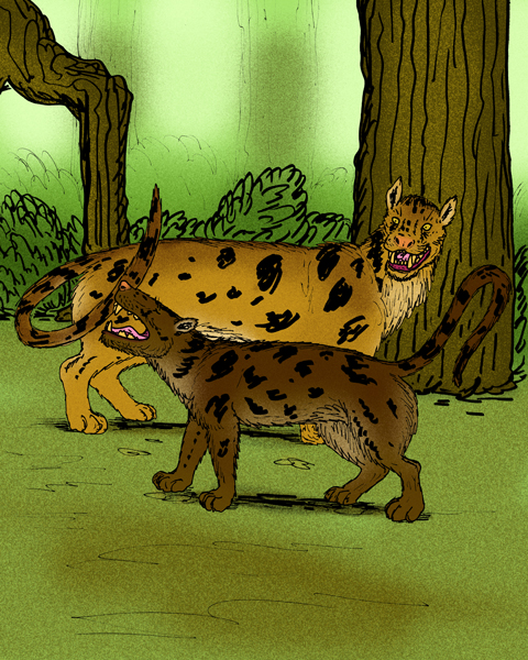 Restoration of the hyaenodontid hyainailourid, Simbakubwa kutokaafrika, from Early Miocene Kenya